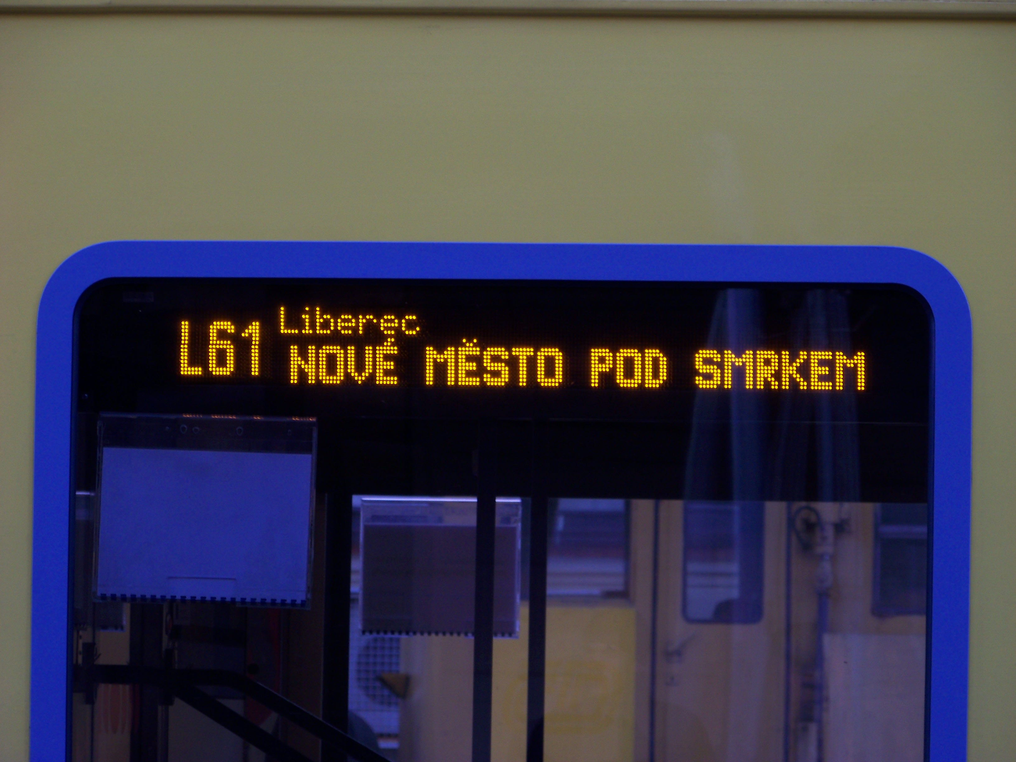 Liberec, Liberec District, Liberec Region, the Czech Republic. Regionova train, a display.